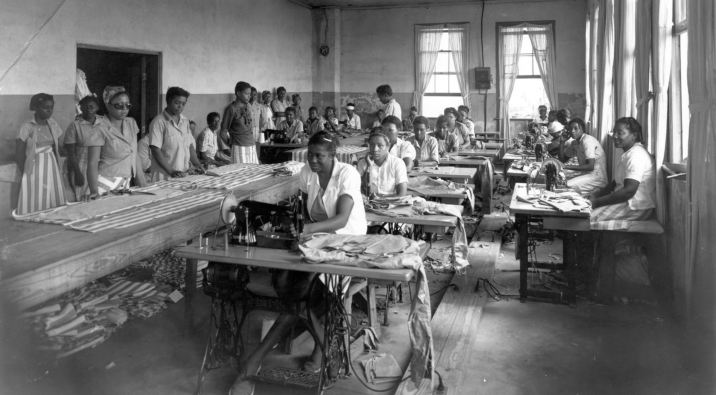 Collection: Mississippi State Penitentiary (Parchman) Photo Collections Call number: PI/PEN/P37.4 System ID: 98995. Link to the catalog Parchman Penal Farm. Female prisoners sewing. Please see our profile page for information on ordering. Scanned as tiff in 2008/06/20 by MDAH. Credit: Courtesy of the Mississippi Department of Archives and History